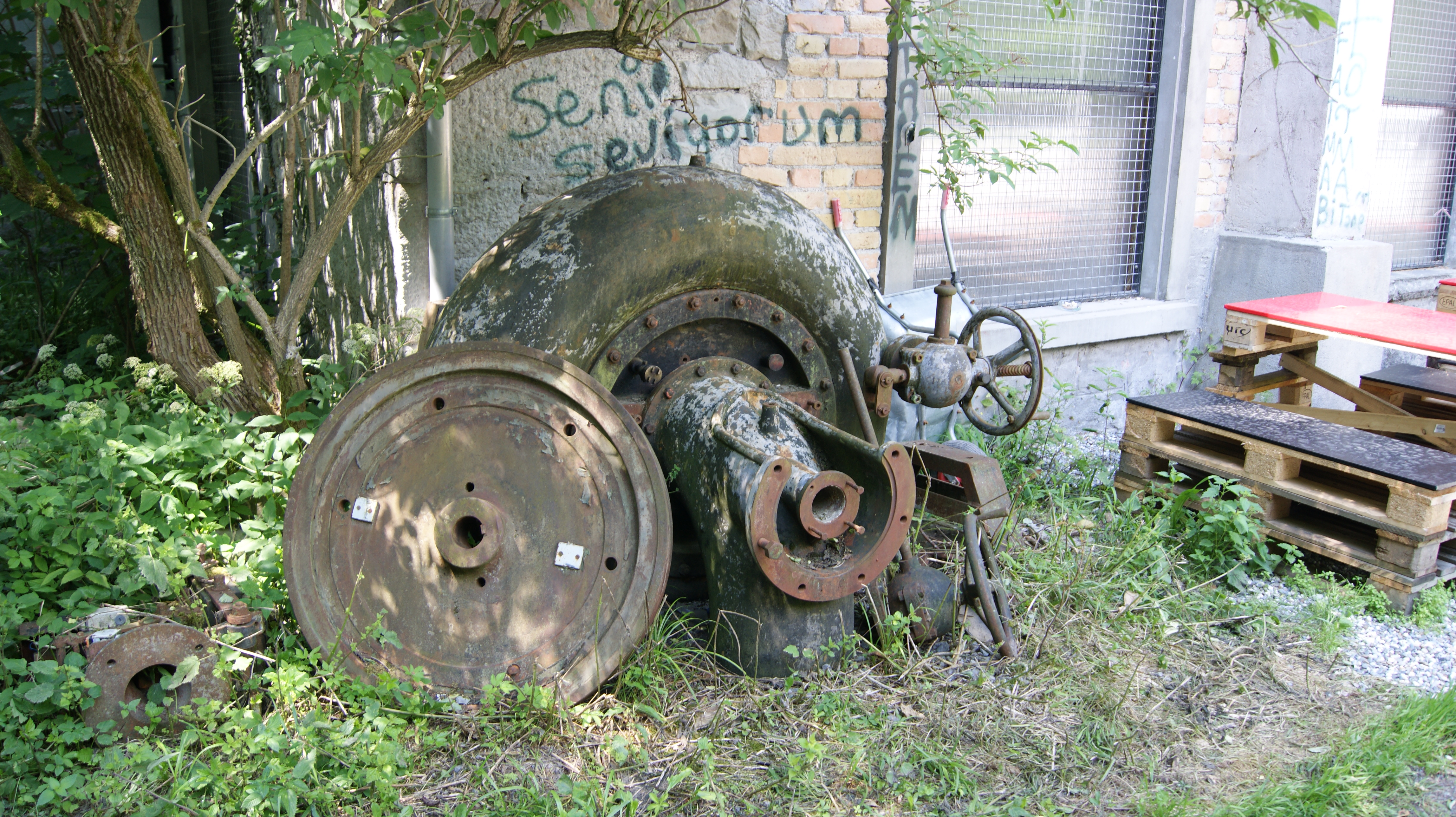 Plot Boden in Dornbirn (Vorarlberg, Austria).Old Turbine near the nightclub Conrad Sohm.